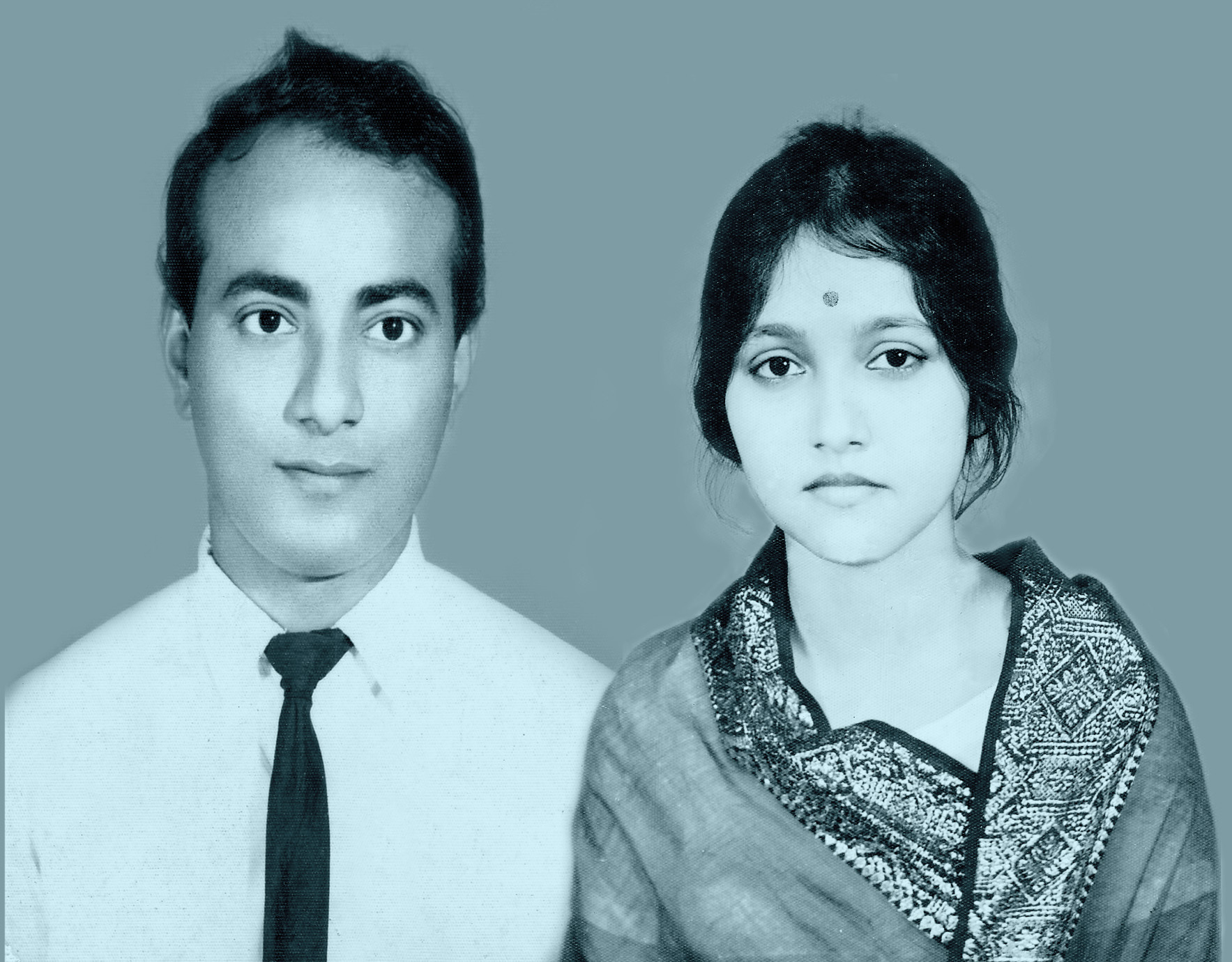 Azaharul Haque and his wife Syeda Salma Haque